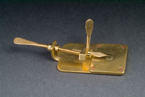 Index of all categories 0 A B C D E F G H I J K L M N O P Q R S T U V W X Y Z {breadcrumb }